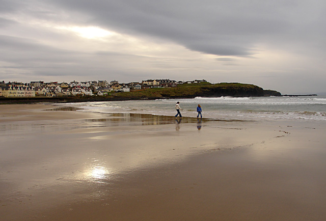 Portrush - West Strand All the houses at the end of the beach are in the neighbouring squares of C8539 and C8439. In summer this beach is covered with families.